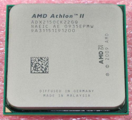 Athlon II processor